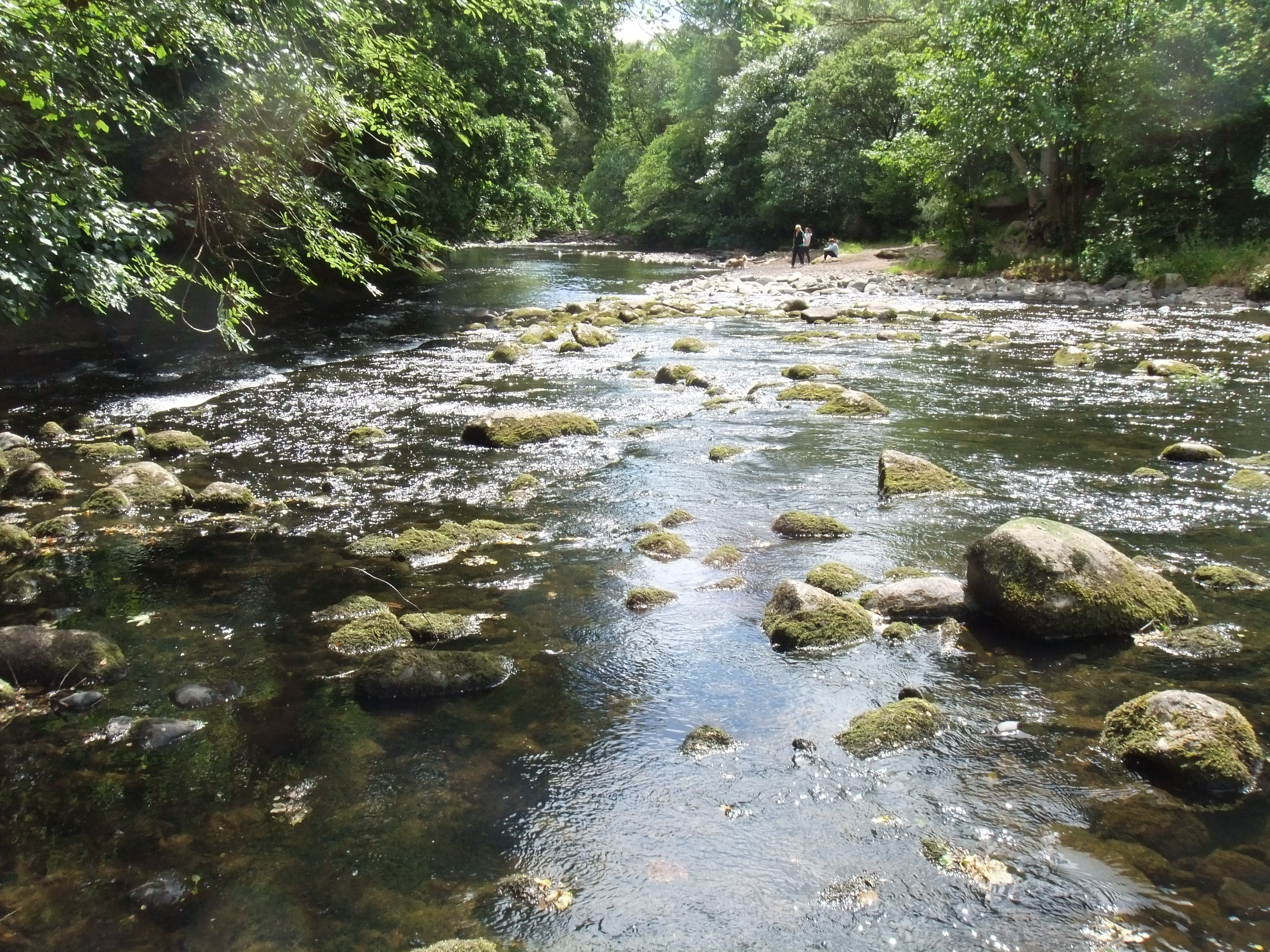 The Allan Water above Bridge of Allan in dry summer conditions, July 2013.